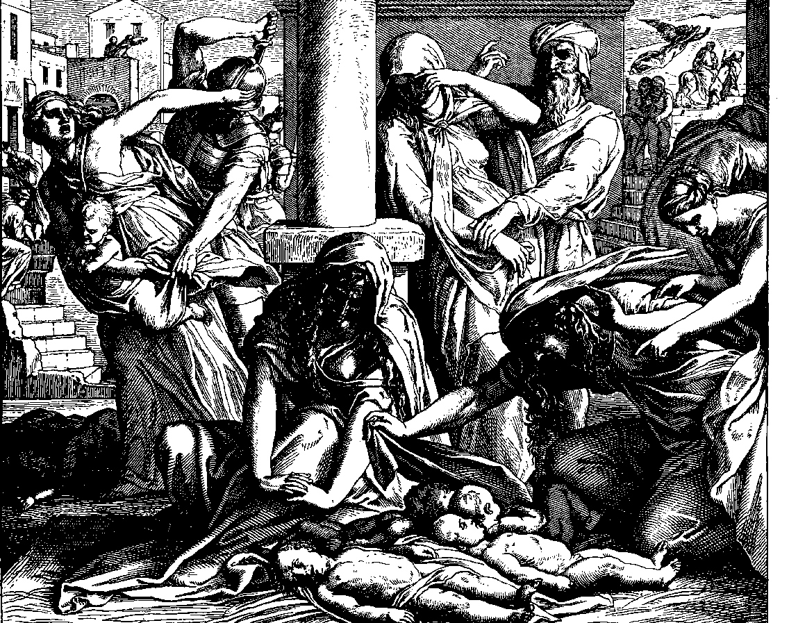 Woodcut for "Die Bibel in Bildern", 1860.